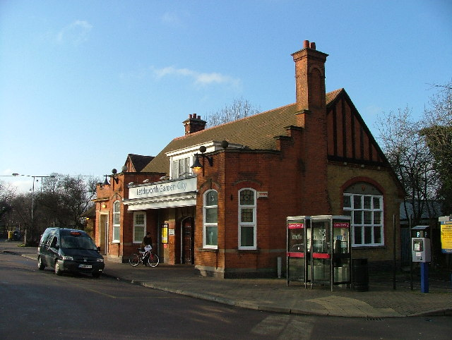 Letchworth Railway Station. At least, that's what it says on the front so I have no reason to doubt it.